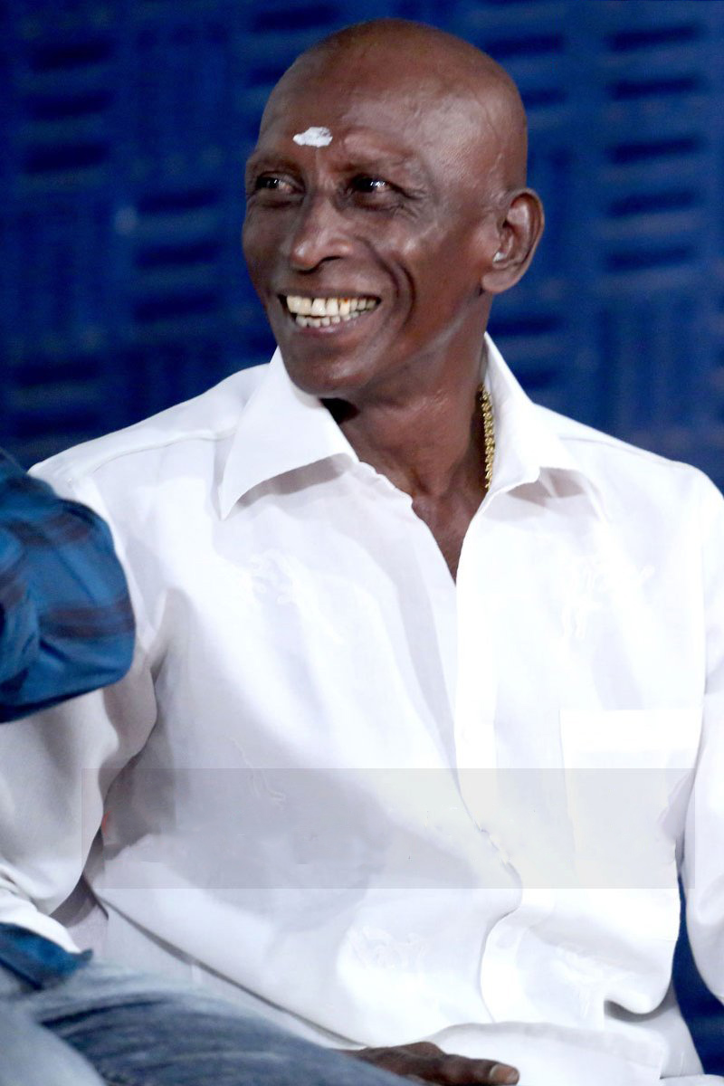 Actor Motta Rajendran at the Vilaasam Press Meet